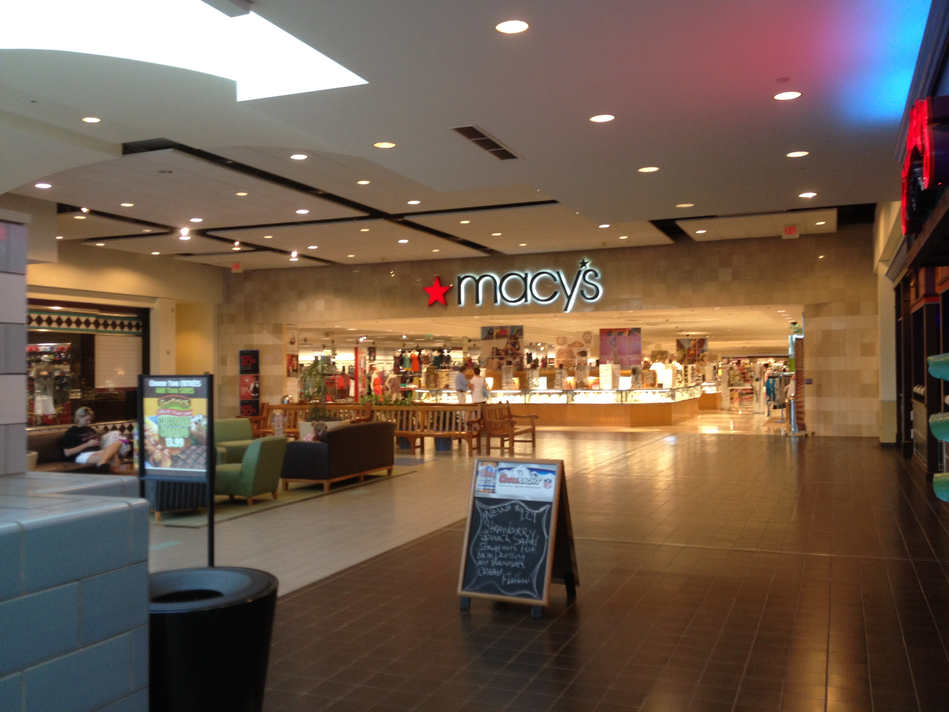 Macy's wing of University Mall, Carbondale, IL